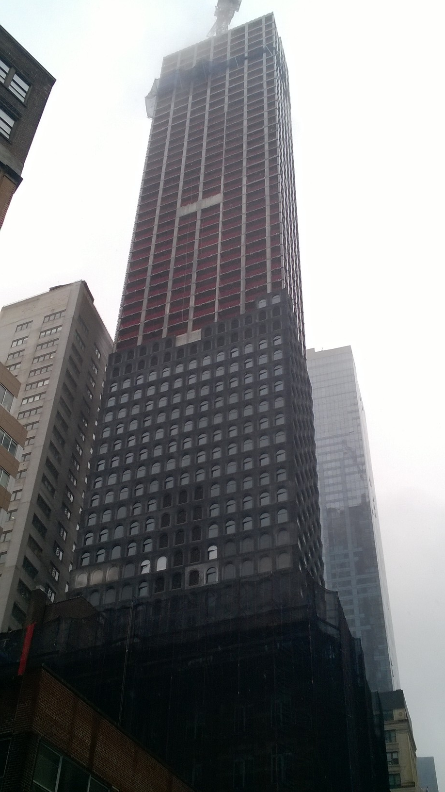 Exterior installation of façade on 130 William Street in NYC on June 10, 2019.